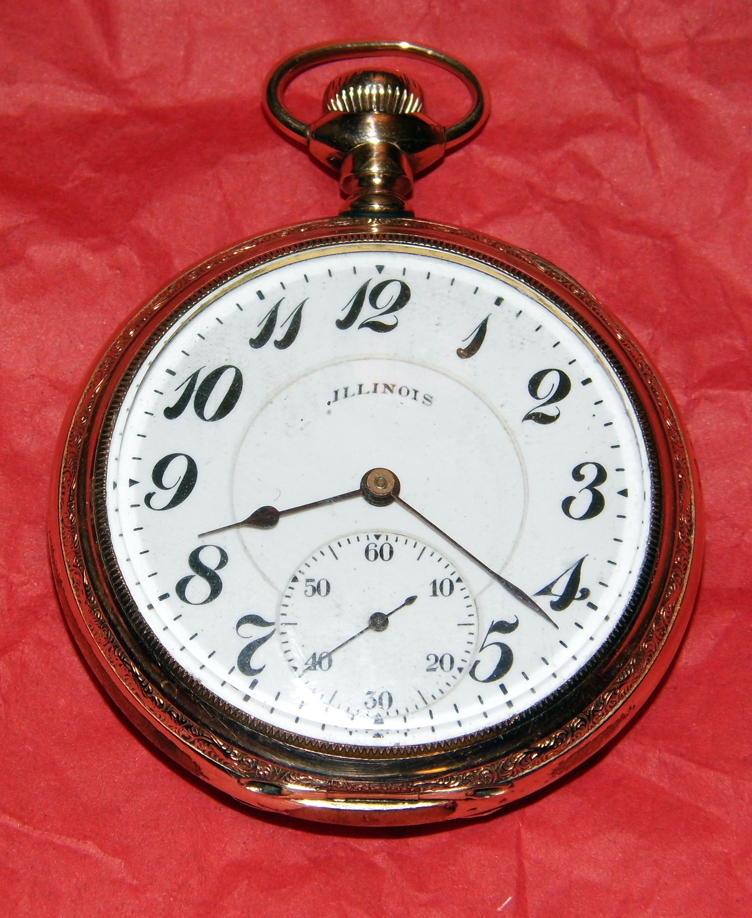 Vintage Illinois Watch Company Goldtone Man's Pocket Watch